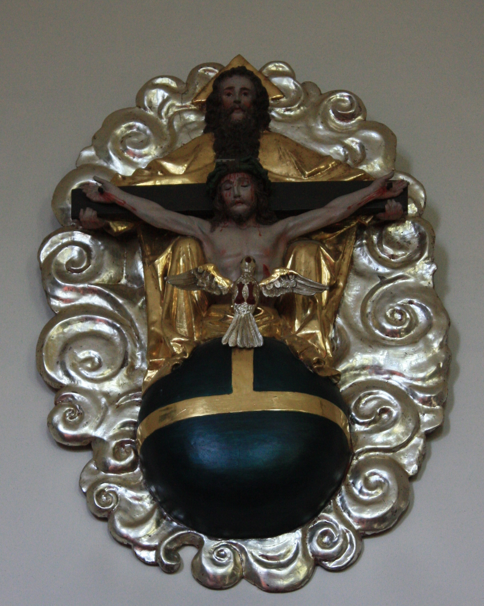 Parish church - Throne of Mercy Locality: Ettendorf Community:Lavamünd